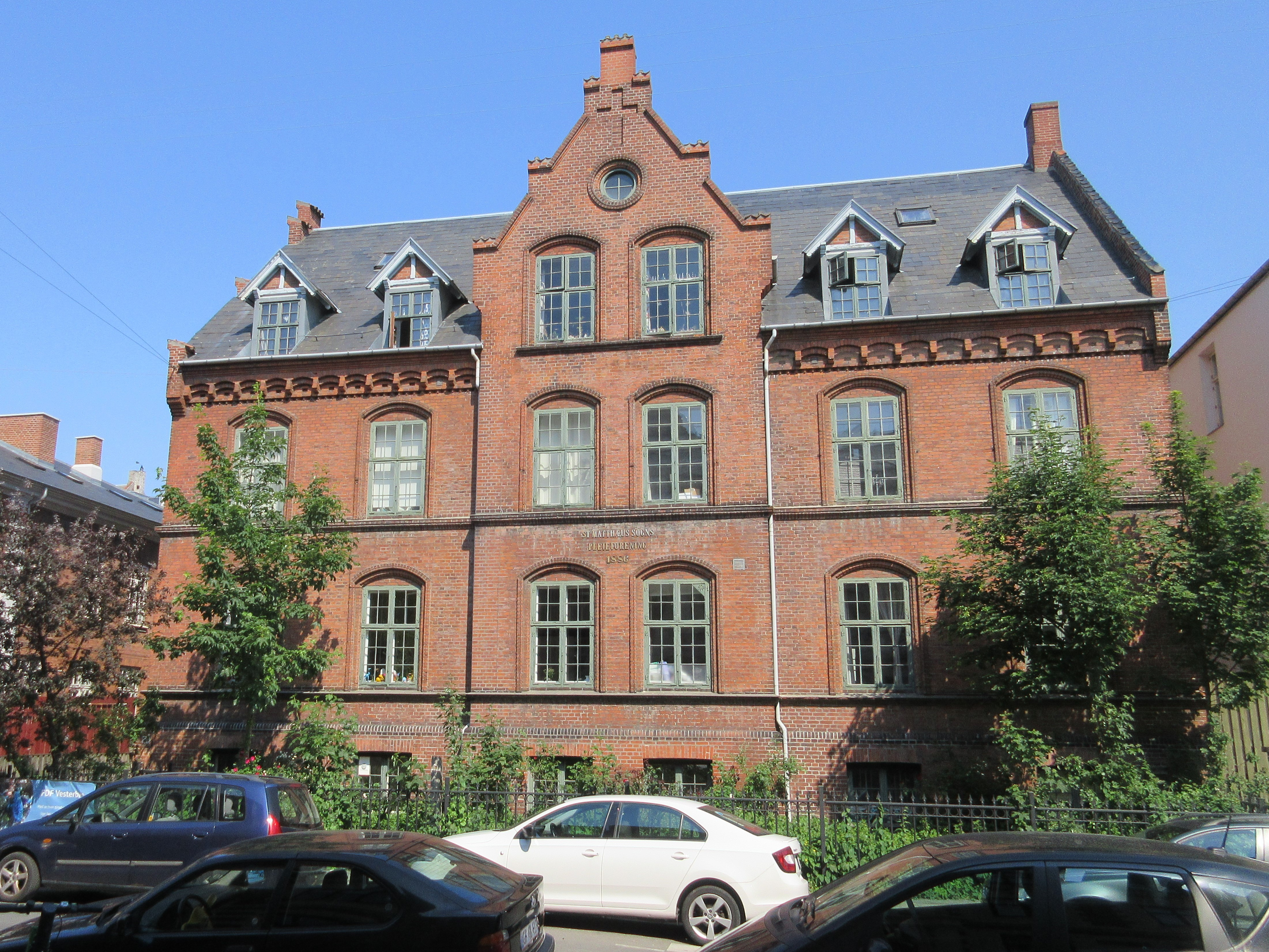 St. Matthæus Sogns Plejeforening on Valdemarsgade in Copenhagen, Denmark